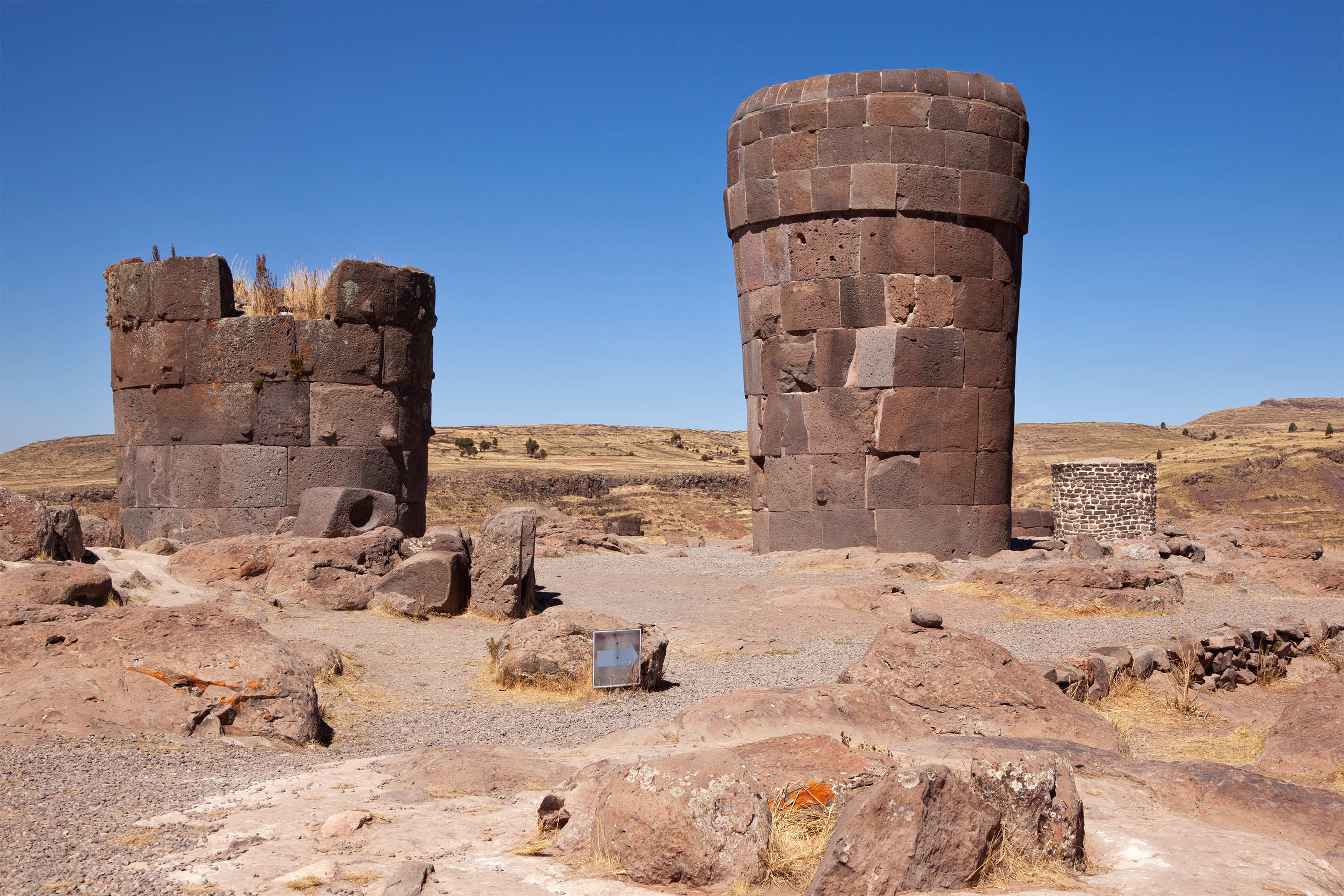 funeral towers (Chullpas), Sillustani, Peru